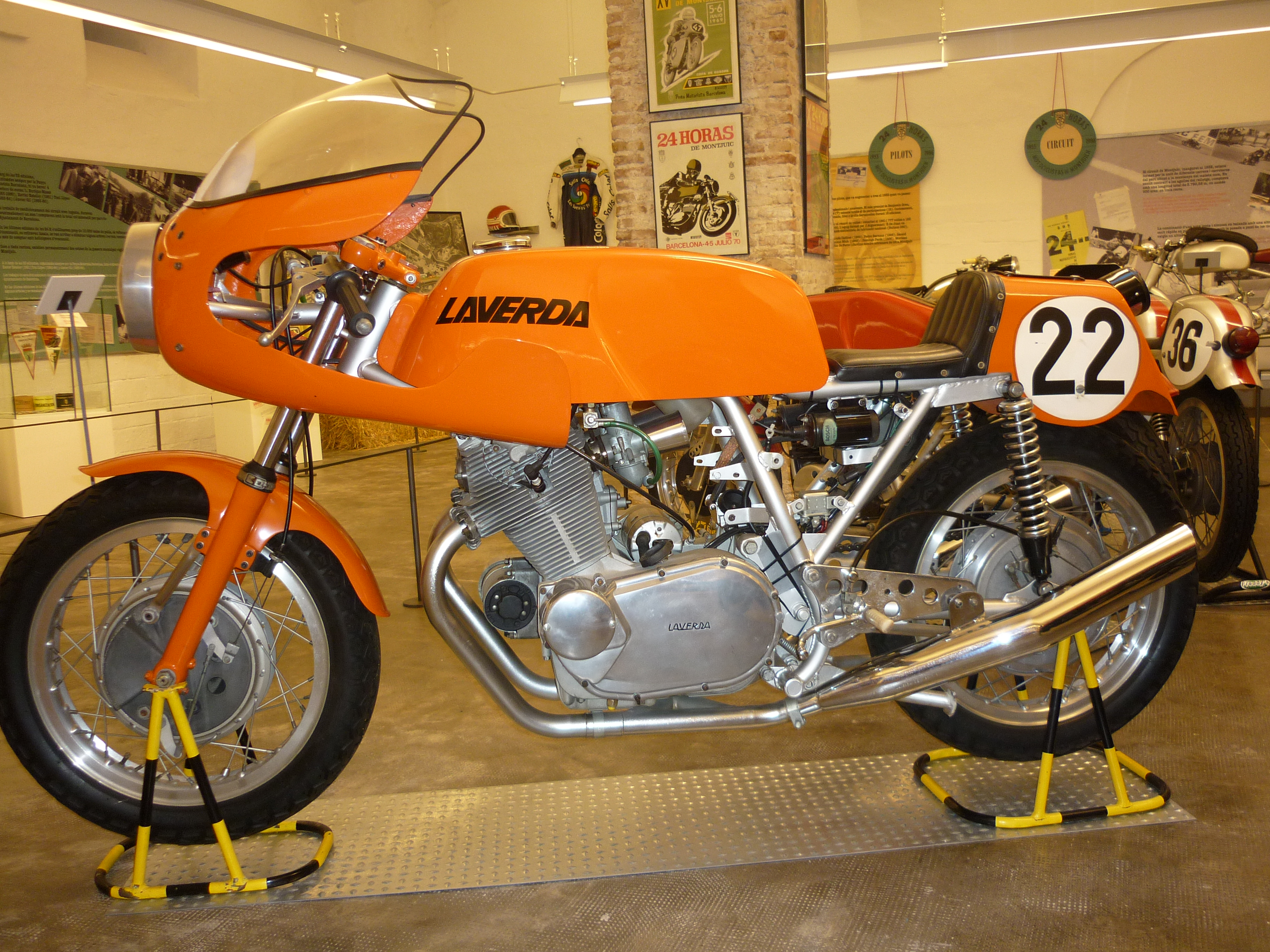 Laverda 750 Sport 750cc. On this bike, Augusto Brettoni and Sergio Angiolini won the XVII 24 Hours of Montjuïc, on 1971